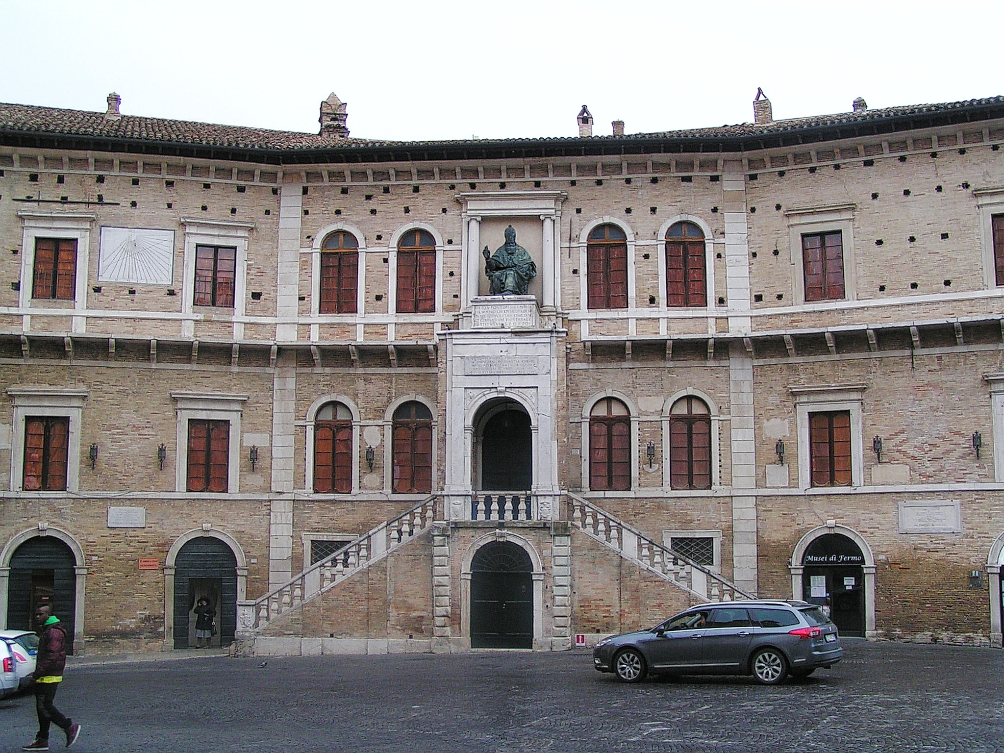 Fermo, Marche, Italy Palazzo dei Prori situated in Piazza del Popolo